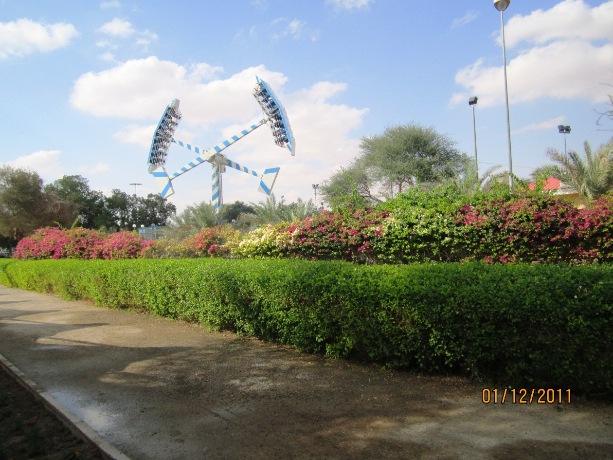 Hili Fun City, Al-Ain